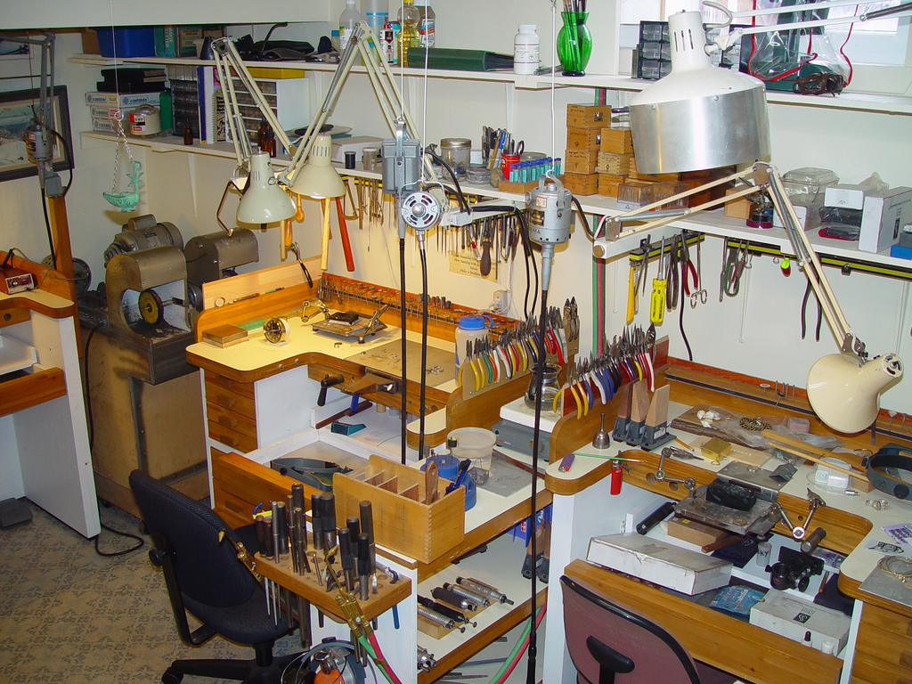 Photography taken by a Canadian jeweller